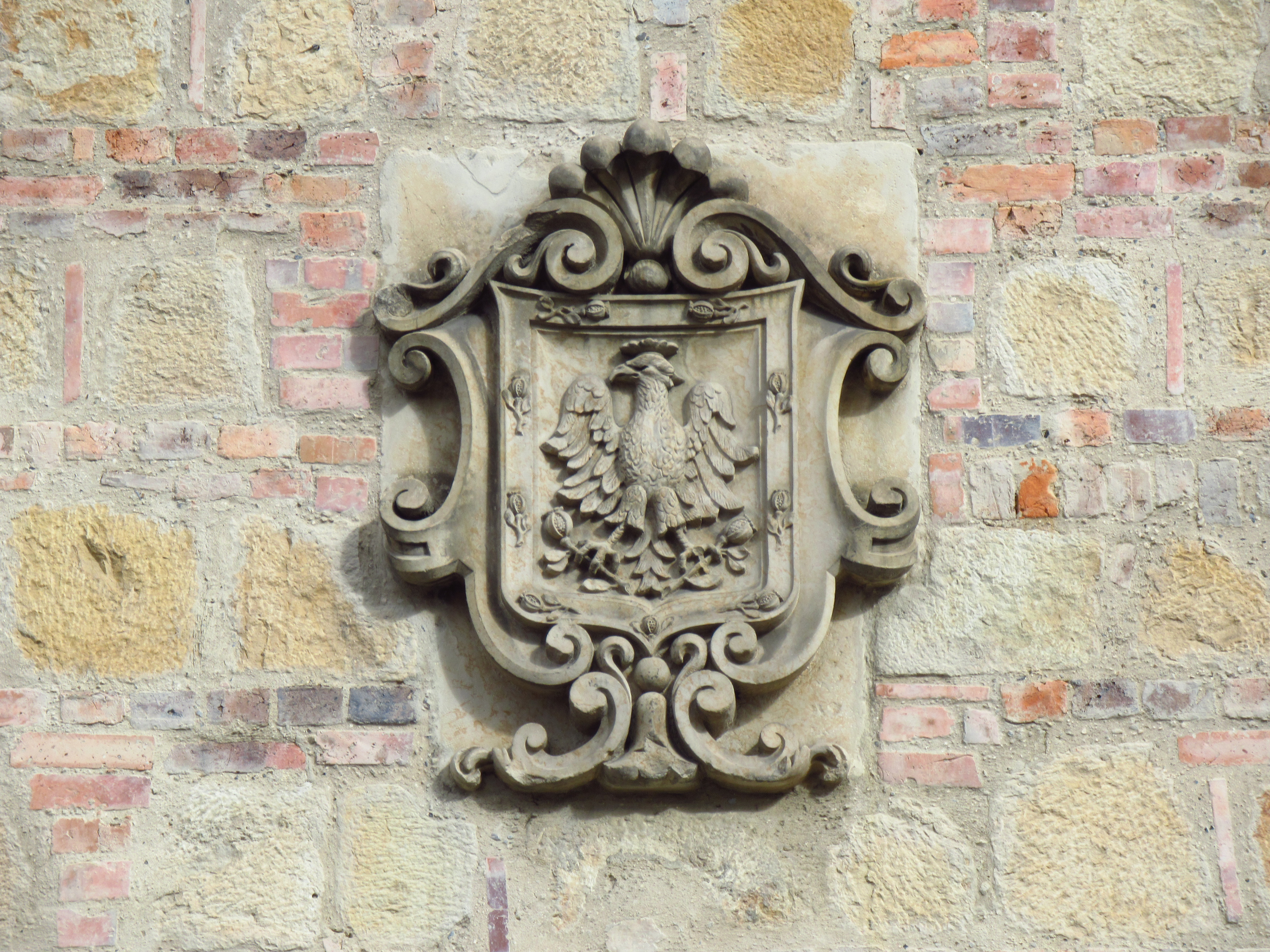 2019 in Bogotá